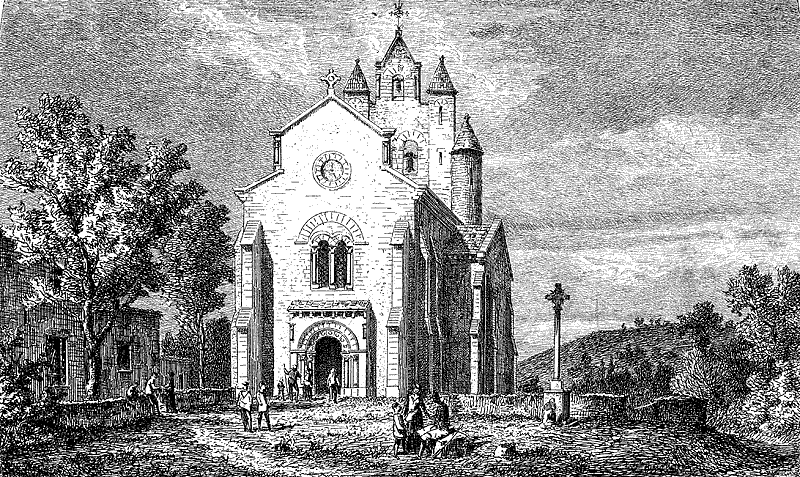 Church of Bieujac (Gironde, France)